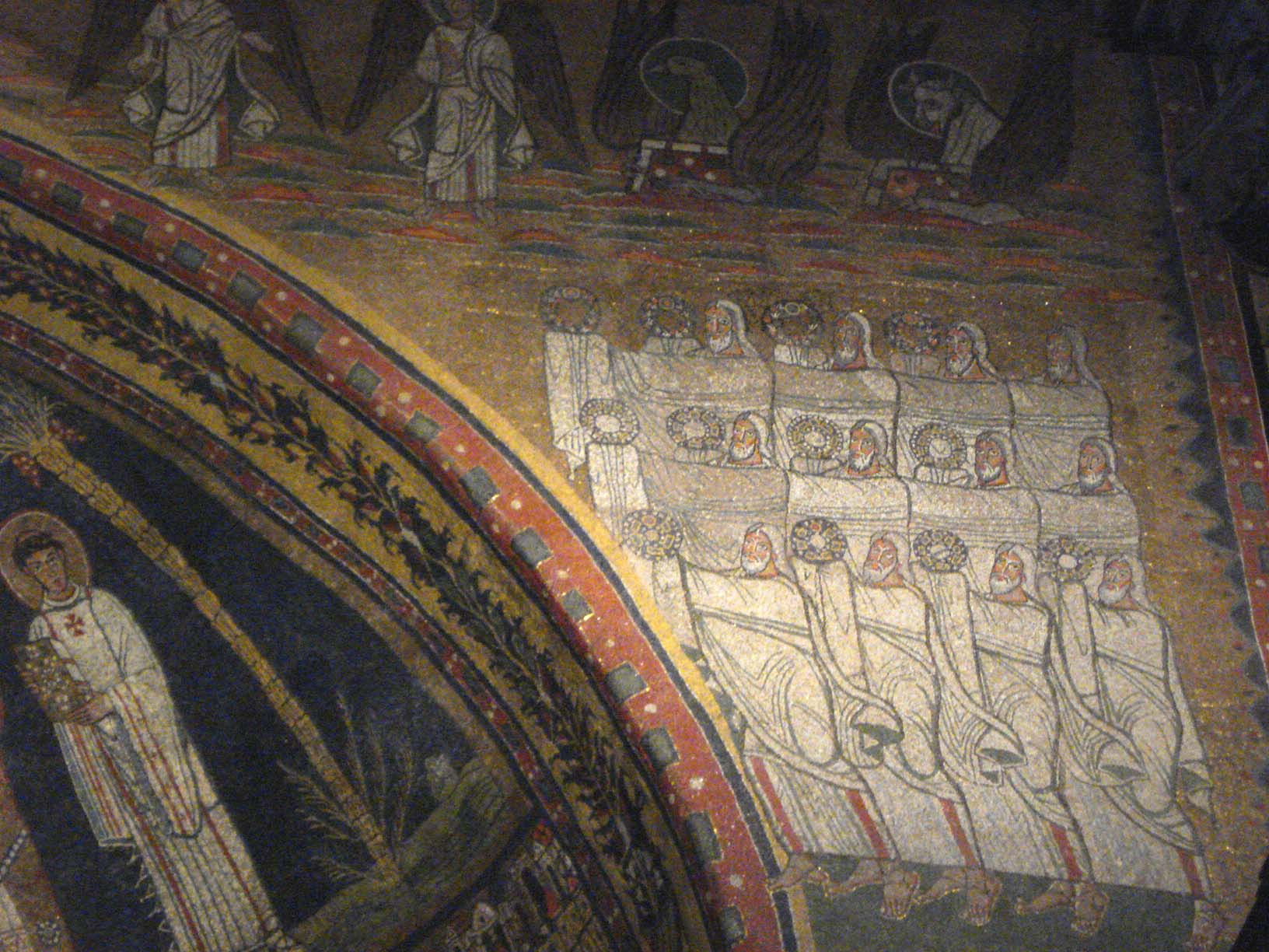 Santa Prassede-apse arch-right side